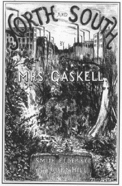 Illustration to the North and South (novel by Elizabeth Cleghorn Gaskell)